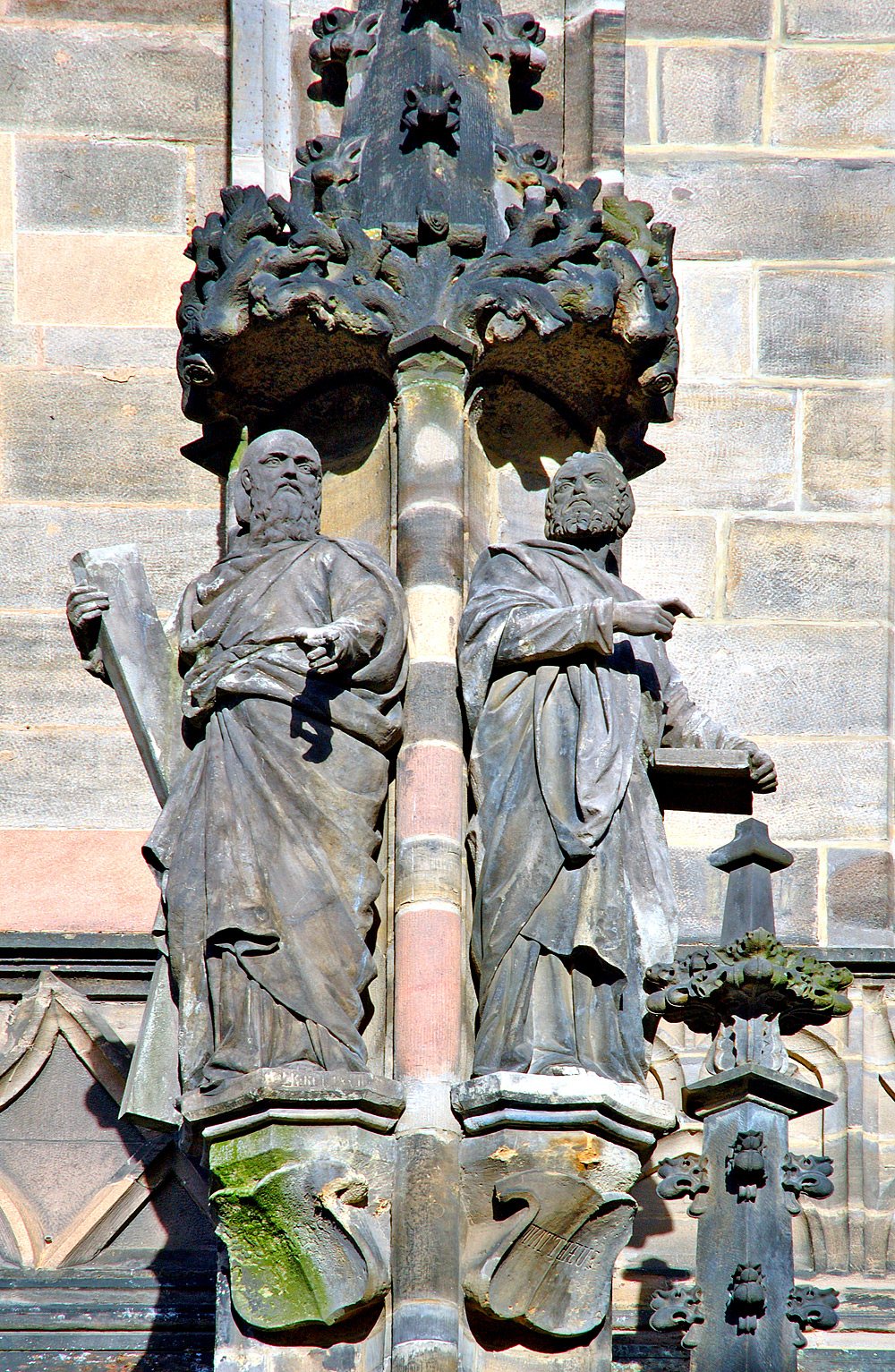 This image shows two of the cathedral figures of the cathedral in Zwickau (Saxony, Germany).